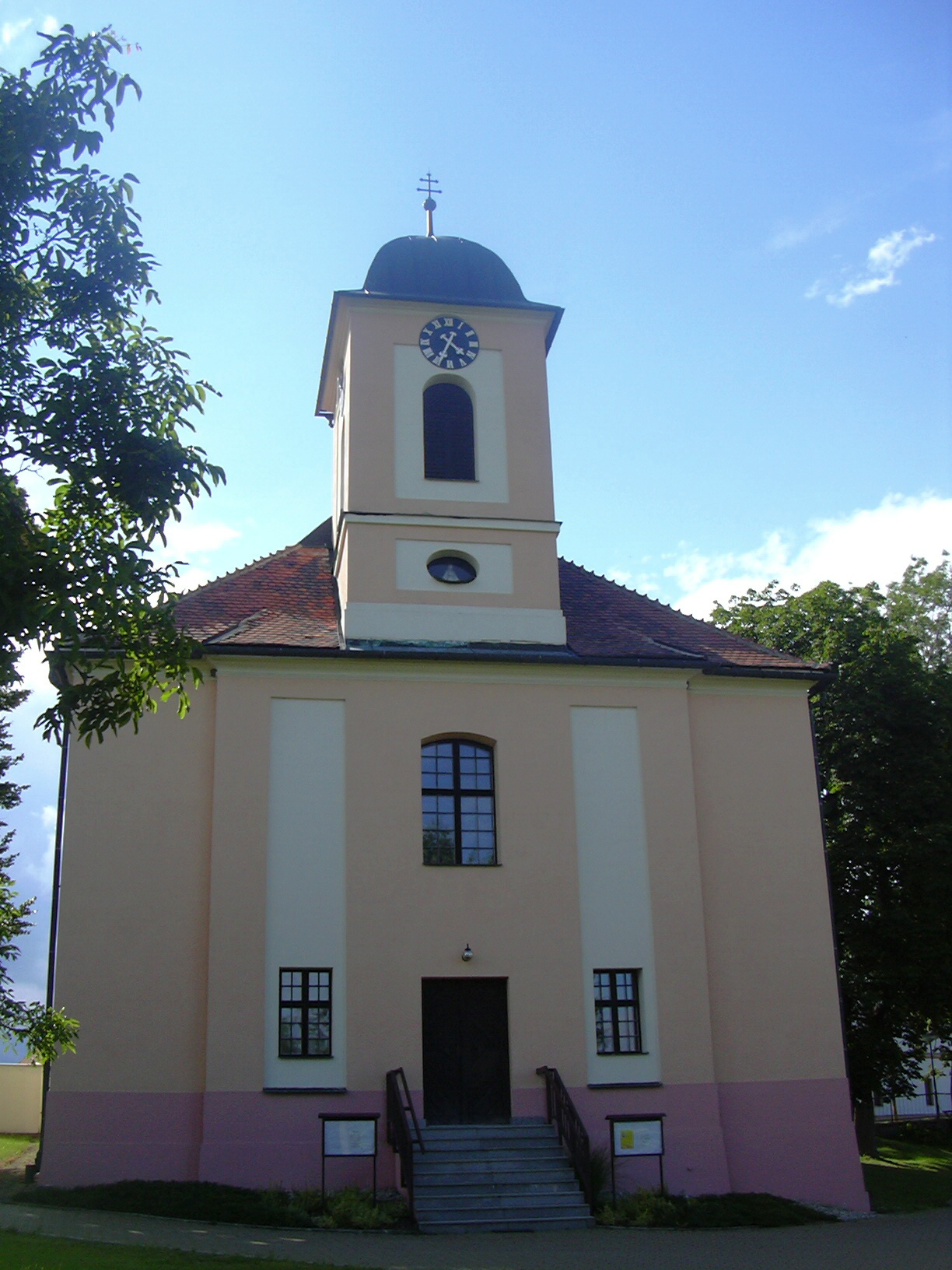 Krásensko, Vyškov District, Czech Republic. Church of Saint Lawrence.